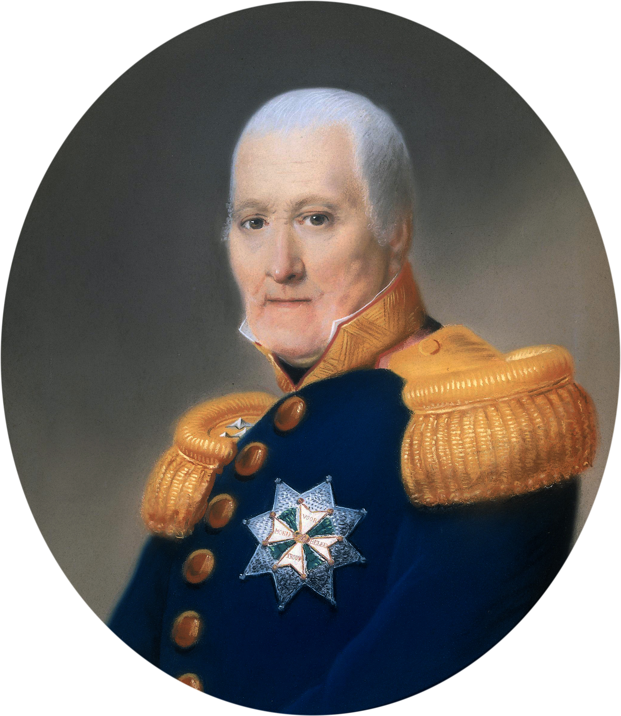 Luitenant-generaal Cornelis Rudolphus Theodorus Krayenhoff chalk 1838